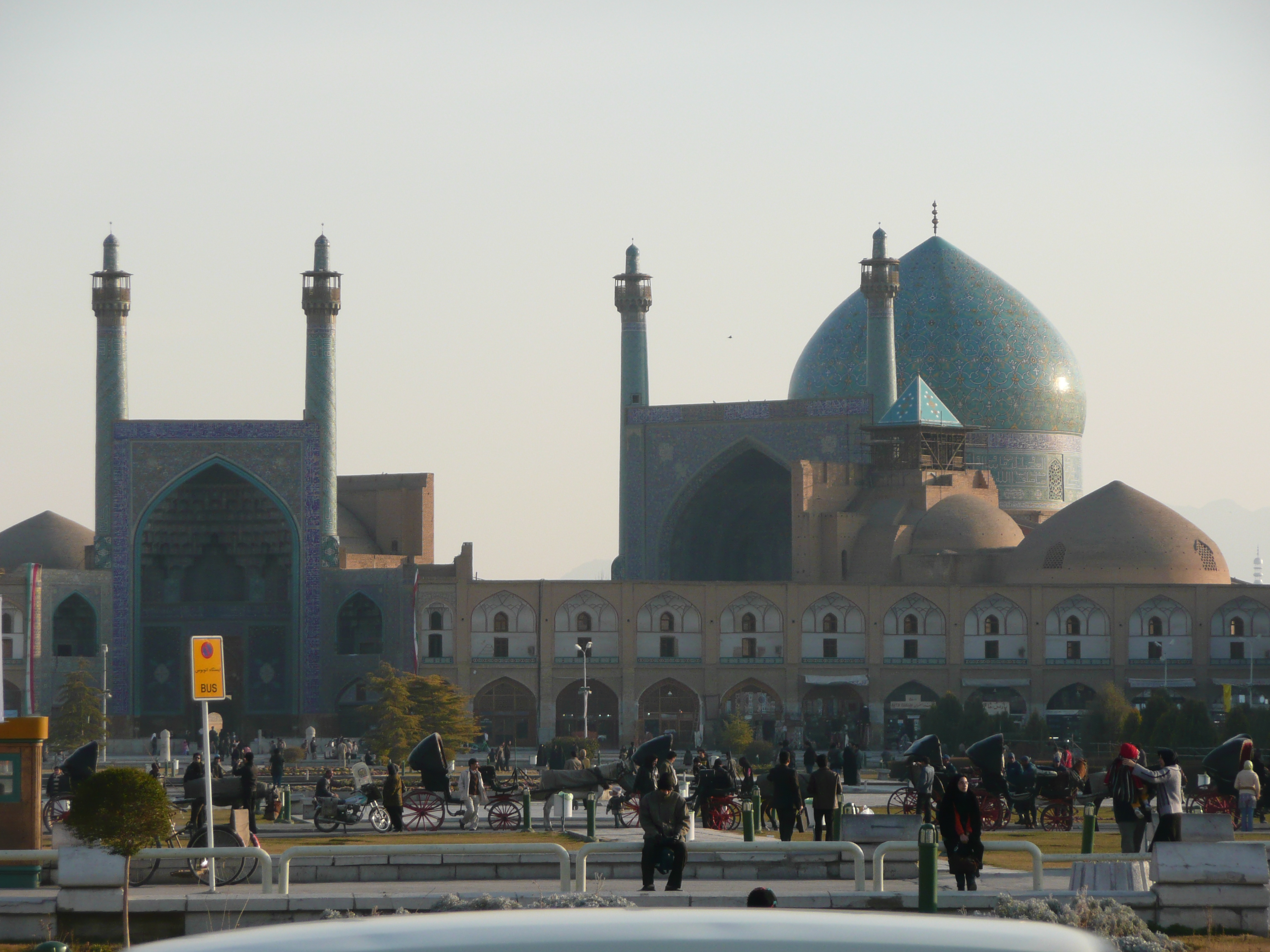 Masjed-e Shah (mosque). Photographs from Isfahan, Iran